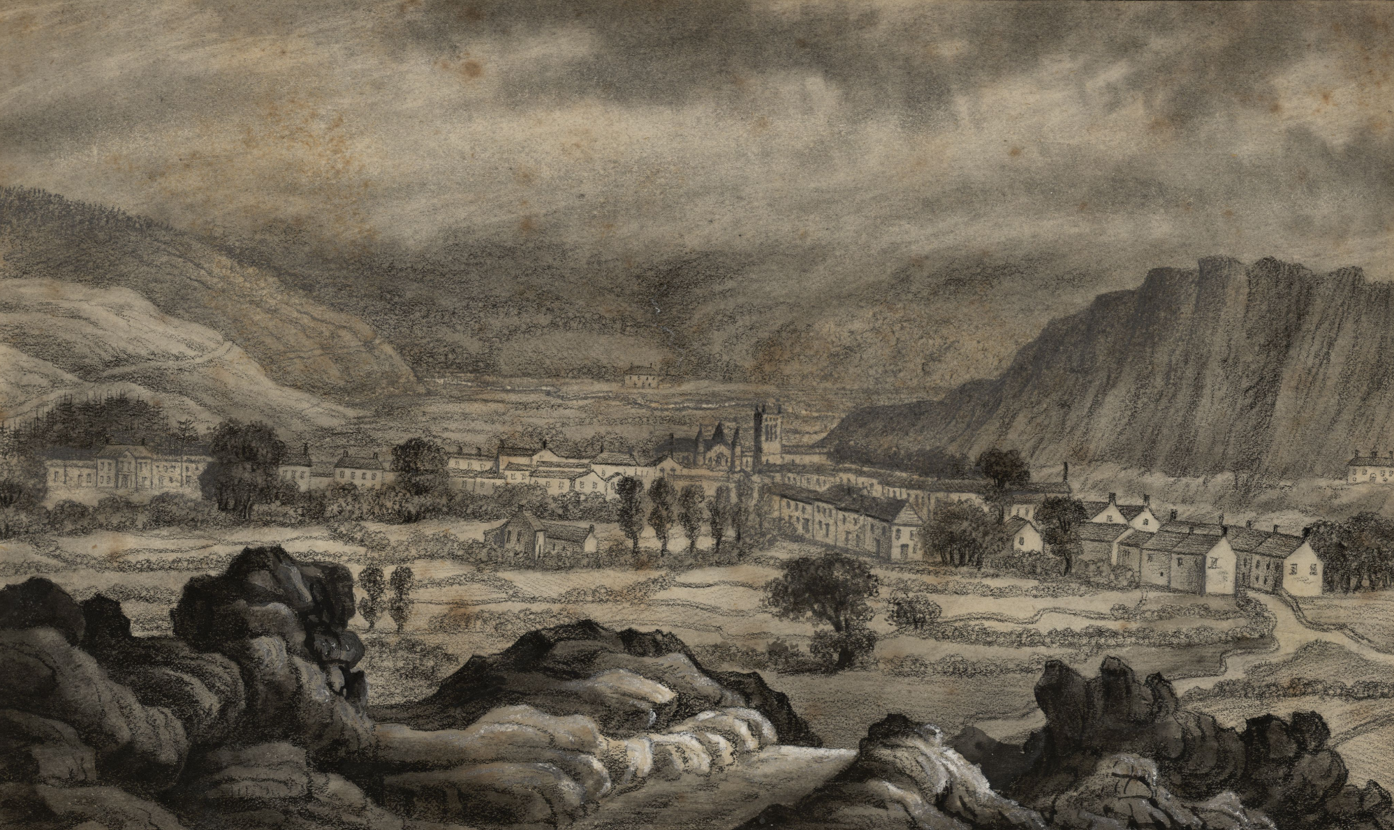 Numerous drawings and landscapes of villages, towns and landmarks in Wales and Ireland. By French artist Alphonse Dousseau.